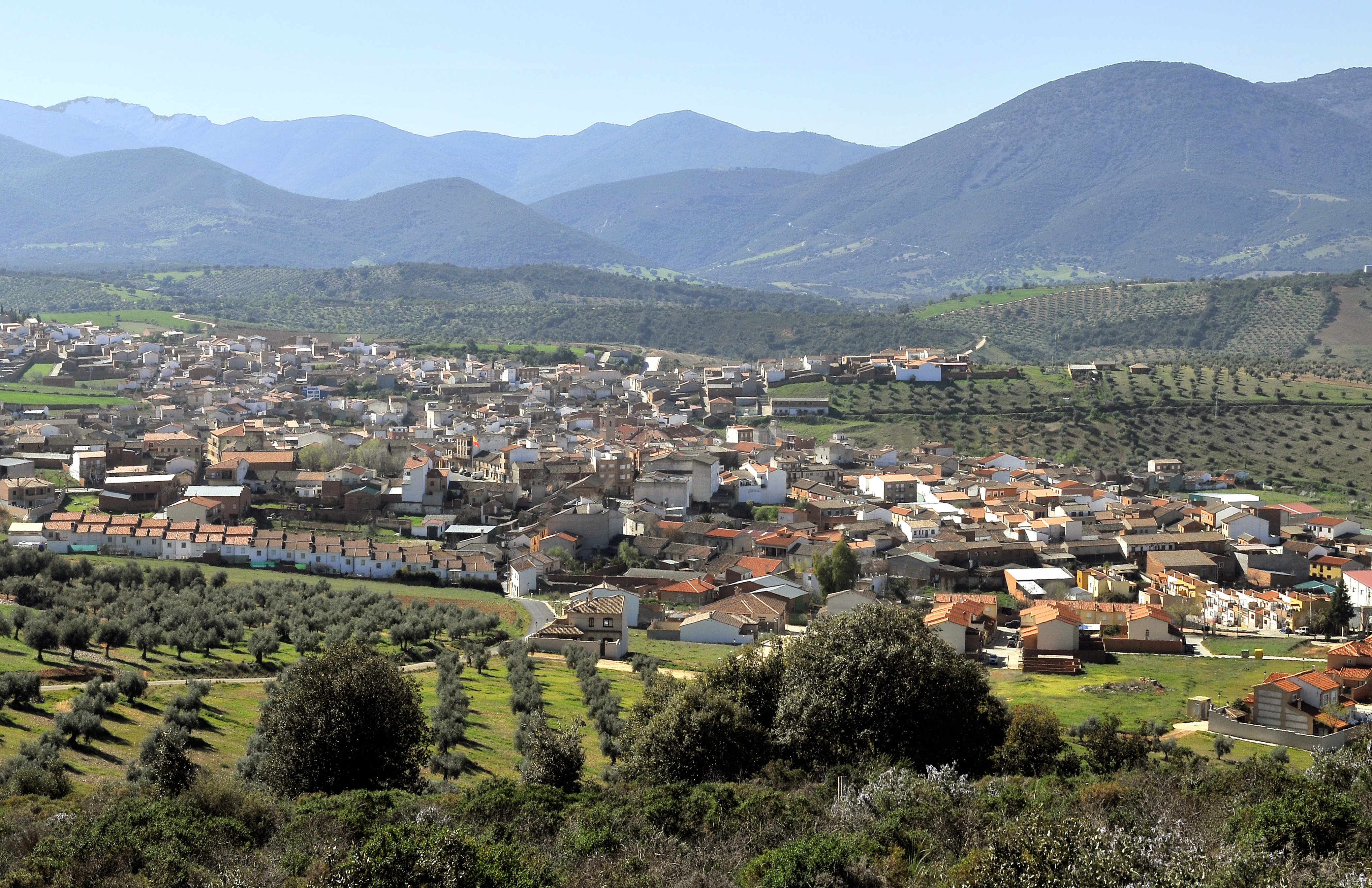 The village and its surroundings from north Los Navalucillos, Toledo, Castile-La Mancha, Spain